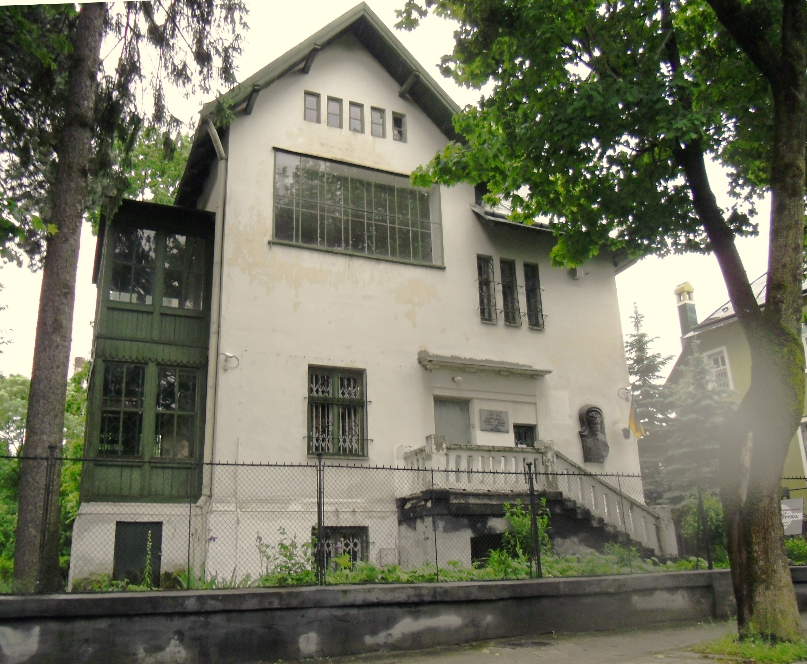 Artistically Memorial Museum of Ivan Trush (1869 – 1941). Ukrainian Impressionist painter, a master of landscape and portrait painter.